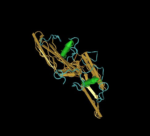 Solution Structure Of Tgf-B1, Nmr, Minimized Average Structure.